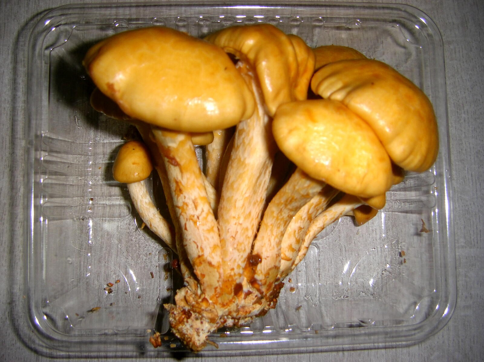 Nameko (Pholiota nameko)